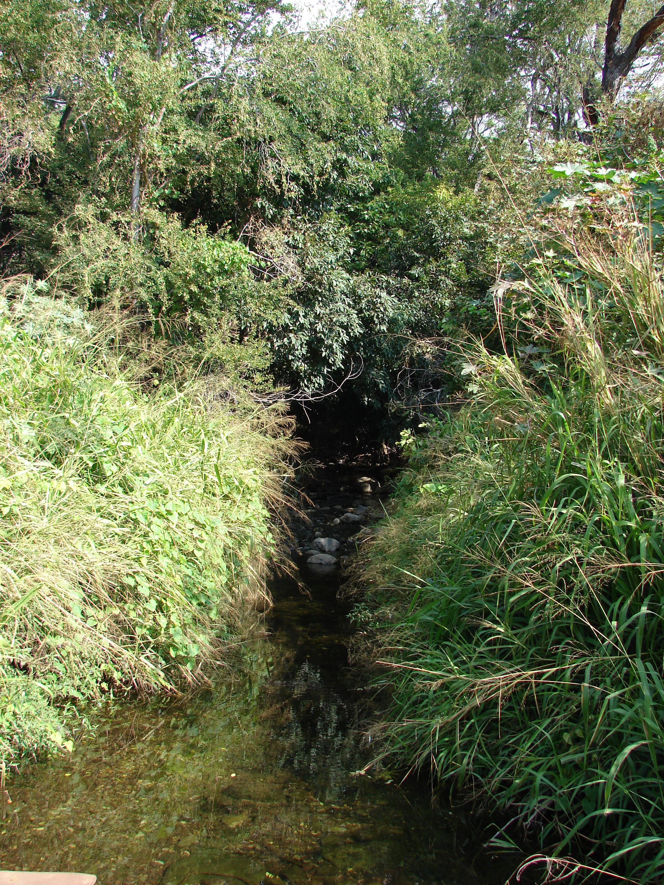 Syzygium cumini (habit and stream). Location: Maui, Ukumehame